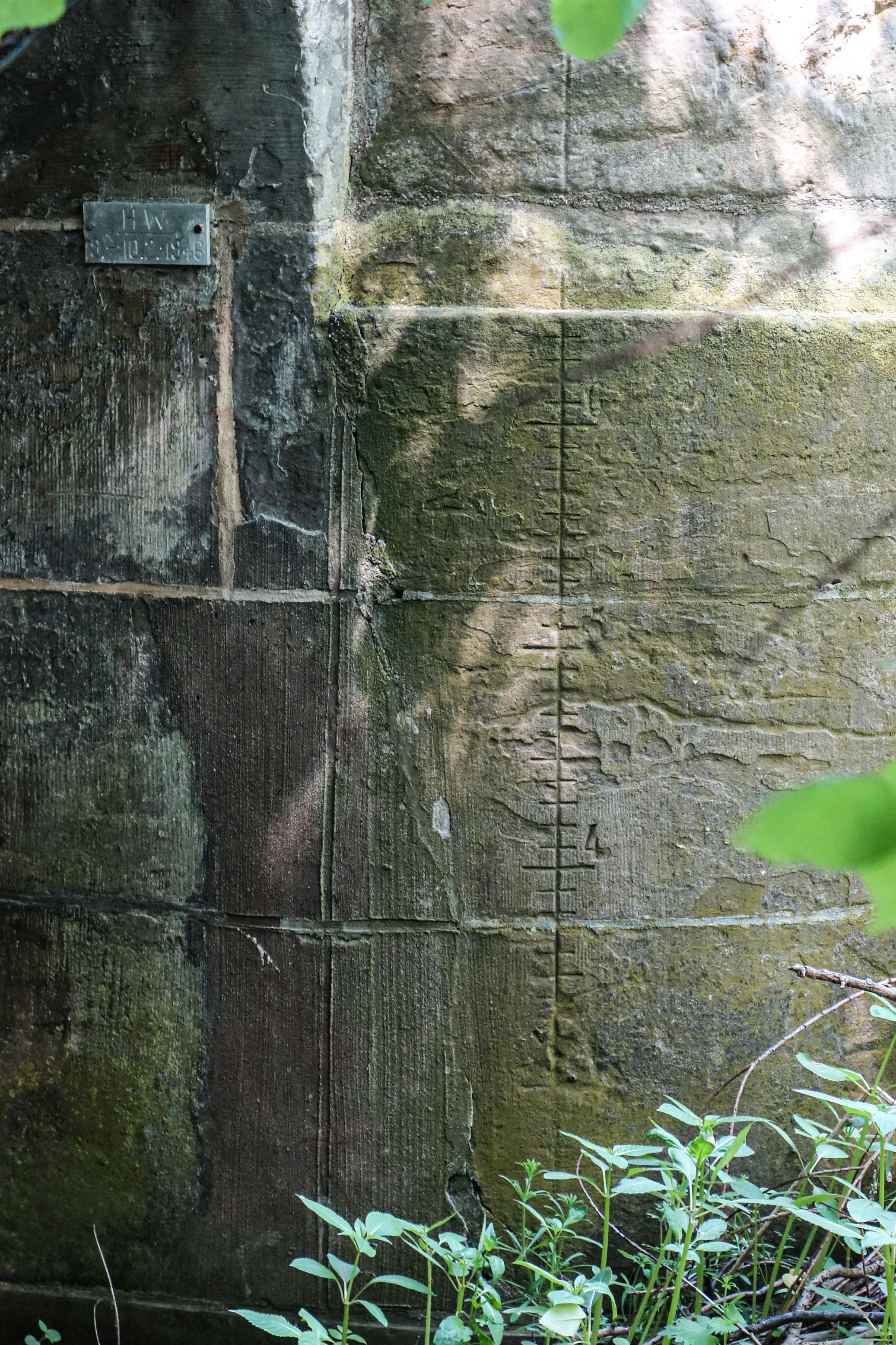 Franzosenbrücke Salzgitter: Pegelmarkierung am südöstlichen Strompfeiler (unterer Teil), links oben Hochwassermarke vom 9.-10.2.1946